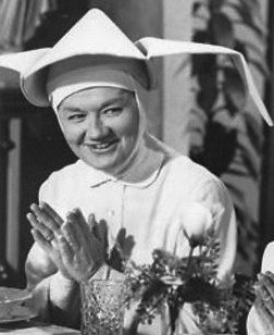 Publicity photo of Marge Redmond (Sister Jacqueline) and Sally Field (Sister Bertrille) from The Flying Nun, 1968